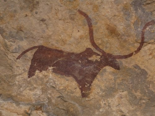 Such rock engravings can be seen in Sita Mata Sanctuary in Pratapgarh